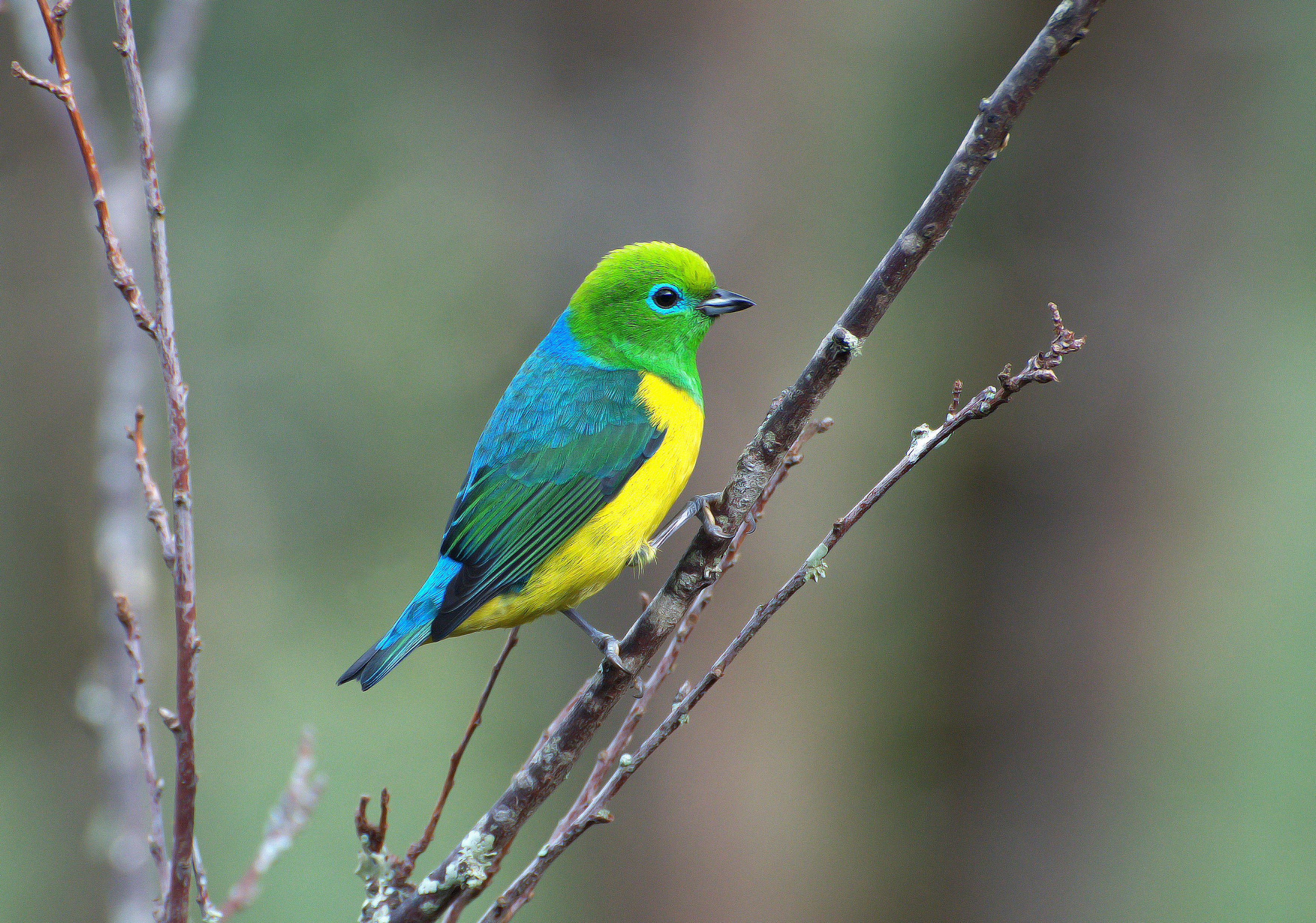 A Blue-naped Chlorophonia in Parque Nacional do Itatiaia, Rio de Janeiro, Brazil.